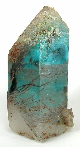 Ajoite, Quartz Locality: Messina mine, Messina District, Limpopo Province, South Africa (Locality at ) Size: 6.9 x 3.7 x 3 cm. The Messina mine is home to a unique and beautiful occurrence of these bright blue ajoite-in-quartz specimens. Seldom do you see a specimen so richly included, with such intensity, as this one. The core zone of color, approximately 2.5 x 2 cm of the front face, has an incredibly rich saturation of the minute ajoite inclusions (a mineral very rare from other localities and seldom concentrated). The crystal is complete-all-around and has moderate inclusions in its upper half, though the front display is most impressive. It has a fine termination, excepting only a rough indentation , a natural contact where it grew against something, at a plateau above the colored zone leading into the peak of the termination. Direct from recent mining here, this is a superb and colorful example.